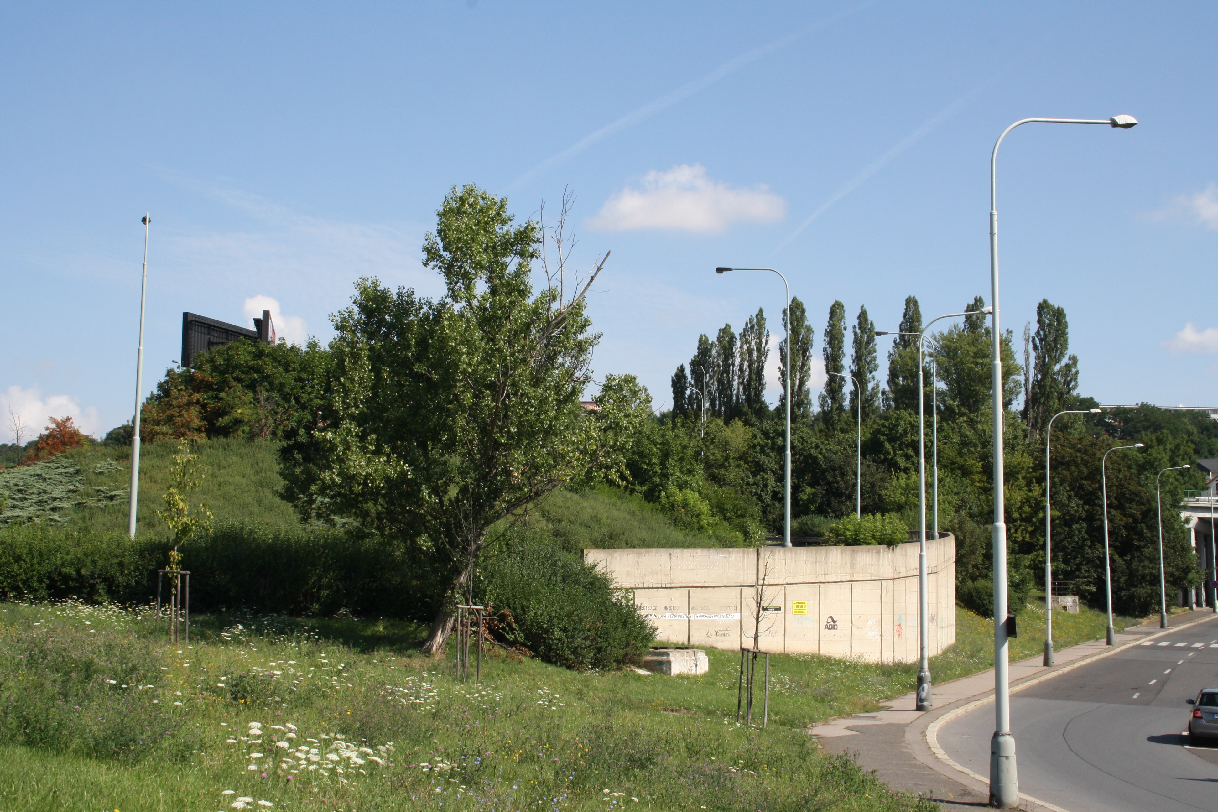 Crossing Vychovatelna, Liben, Prague, Czech Republic